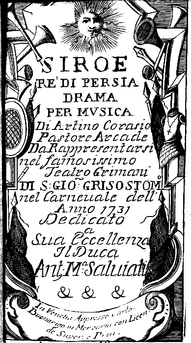 Giovanni Battista Pescetti - Siroe re di Persia - titlepage of the libretto - Venice 1731